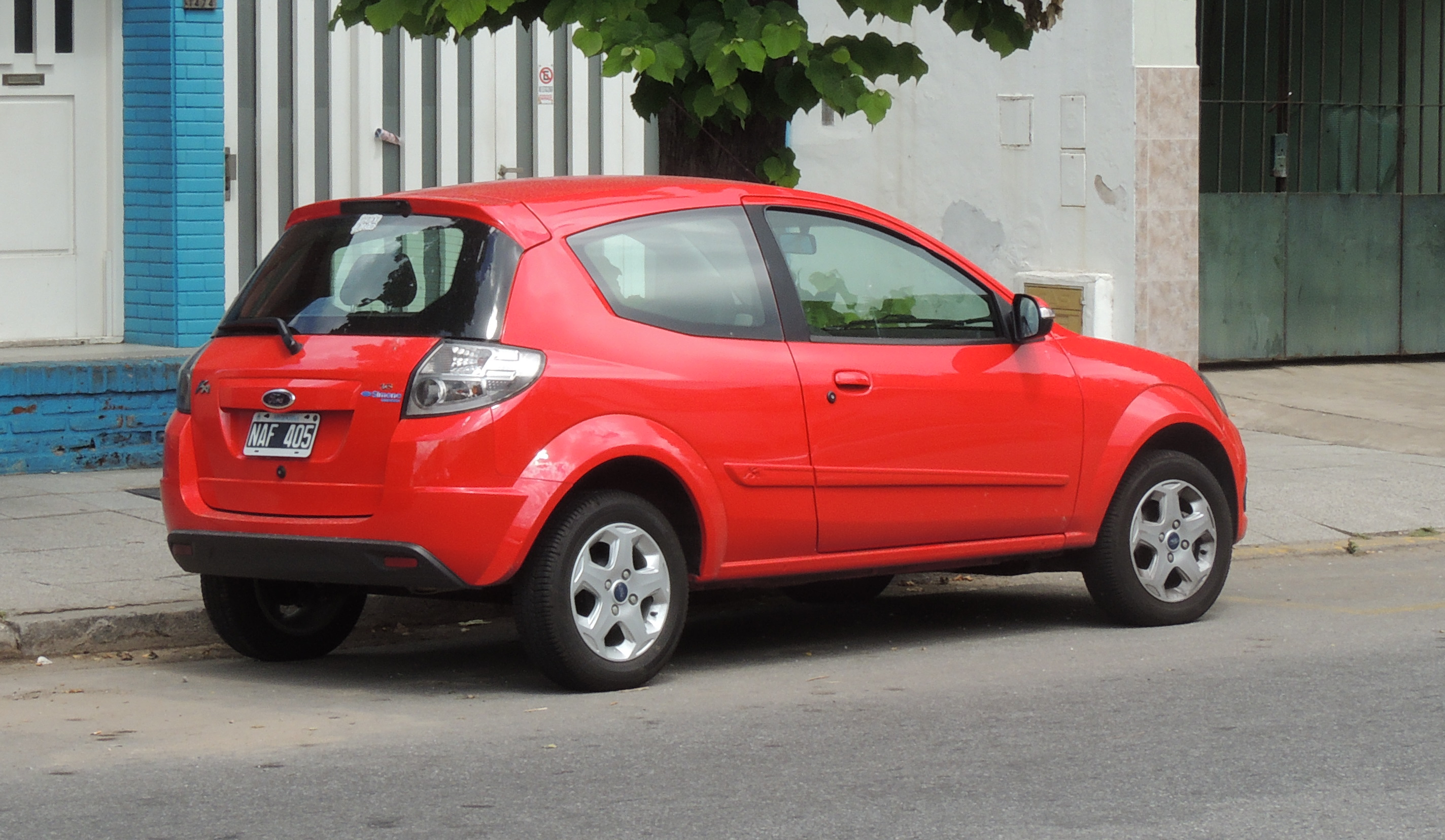 Ford Ka parked in Mar del Plata, Argentina